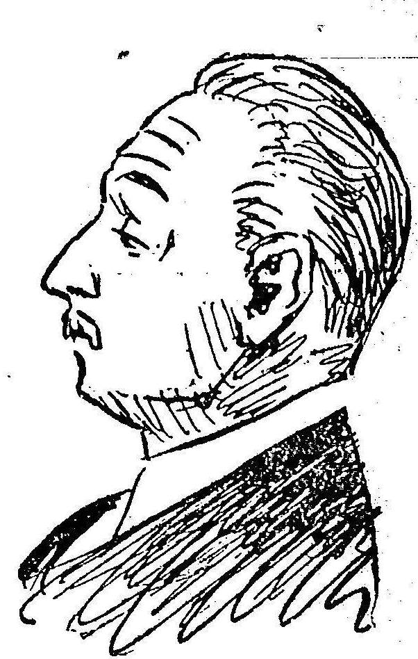 Alfred Hagn, drawing in the Norwegian newspaper Aftenposten July 4. 1917.